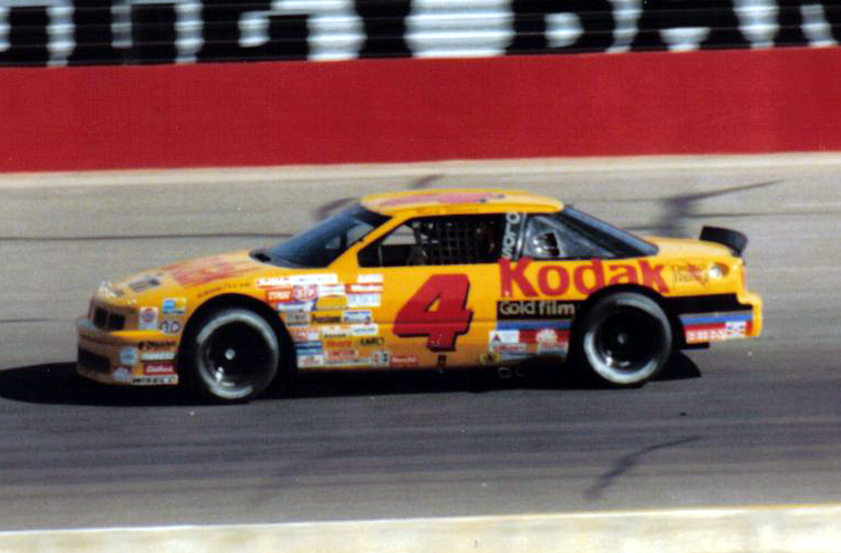 The Larry McClure owned Kodak Oldsmobile of Rick Wilson finished 40th in the 1989 Checker 500.